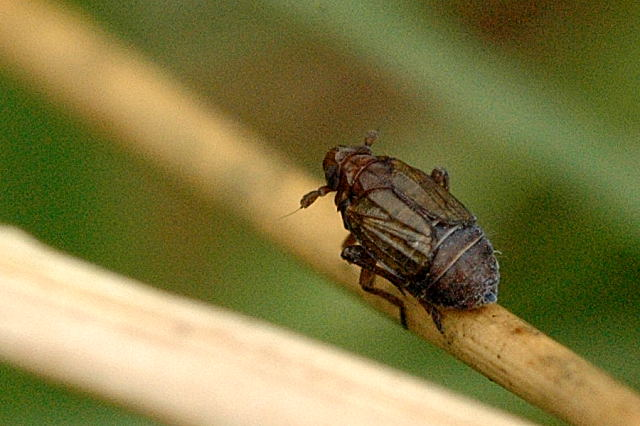 Picture taken in Commanster, Belgian High Ardennes . Species: Javesella sp. female